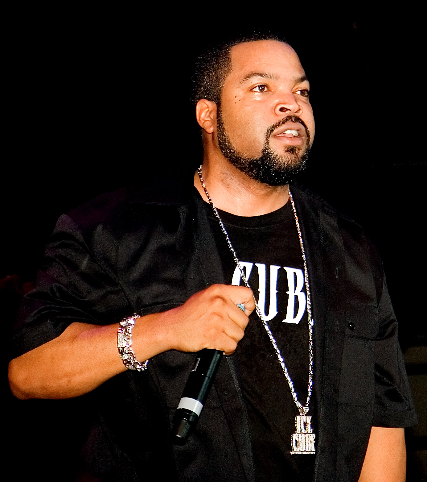 Ice Cube